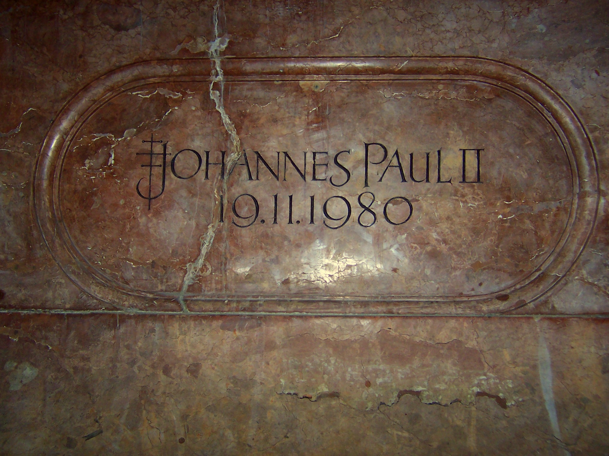 Engraving on the Marian column of Munich: the date of the visit of Pope John Paul II.